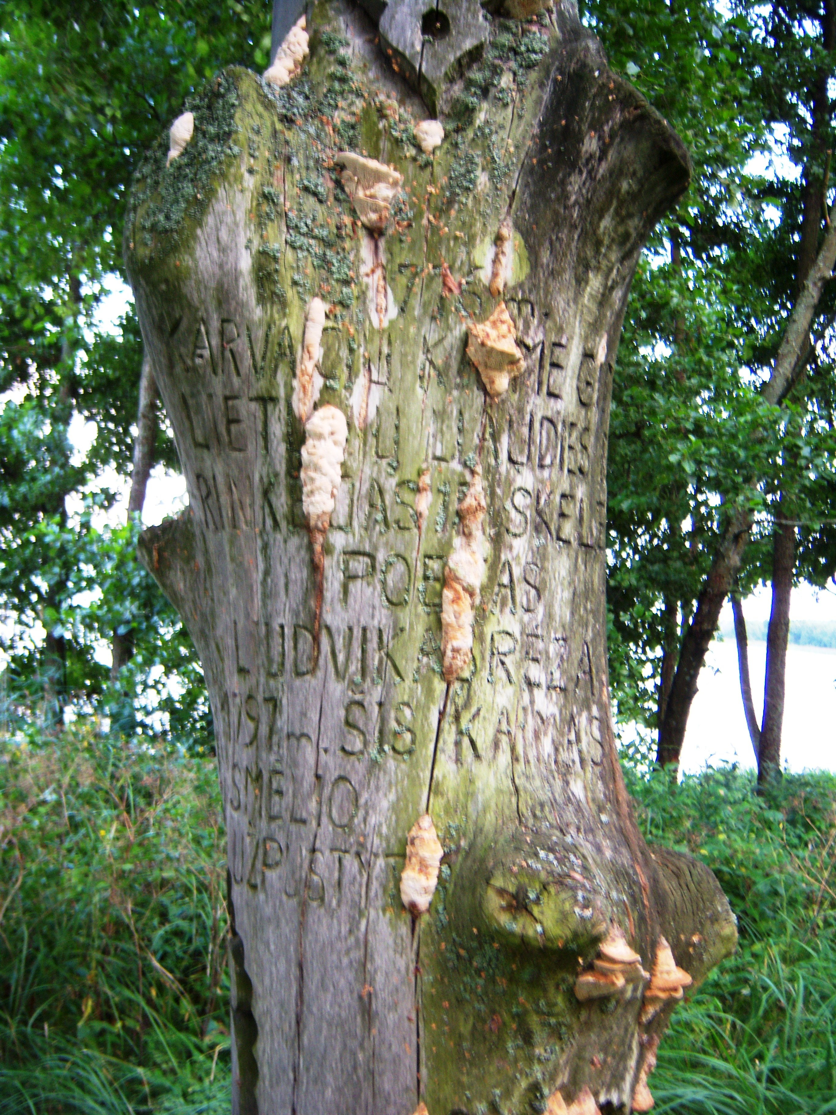 Commemoration inscription to Karvaičiai village and L. Rėza,Neringa, Lithuania